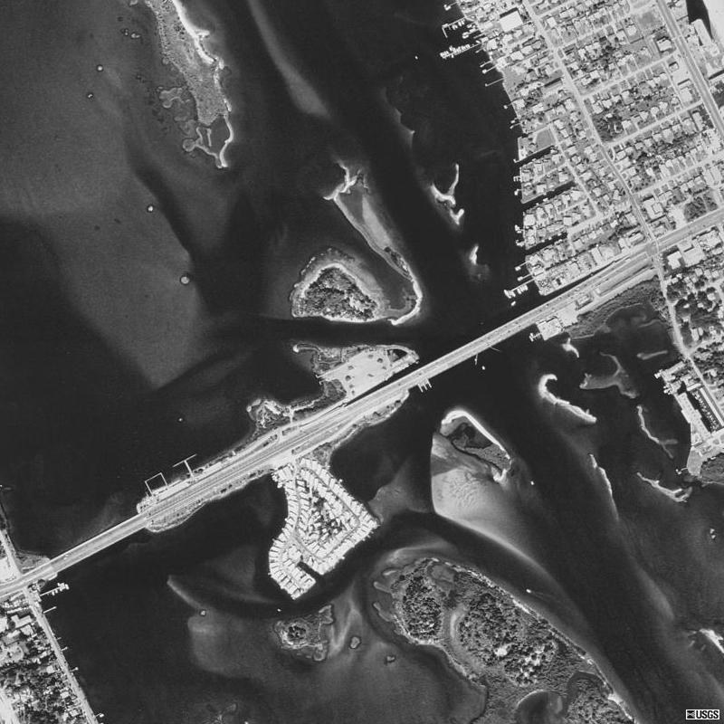 USGS digital orthophoto of Port Orange Causeway, Port Orange, Florida, United States.